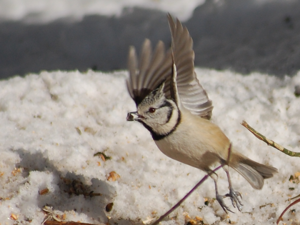 A crested Tit is flying away with some food